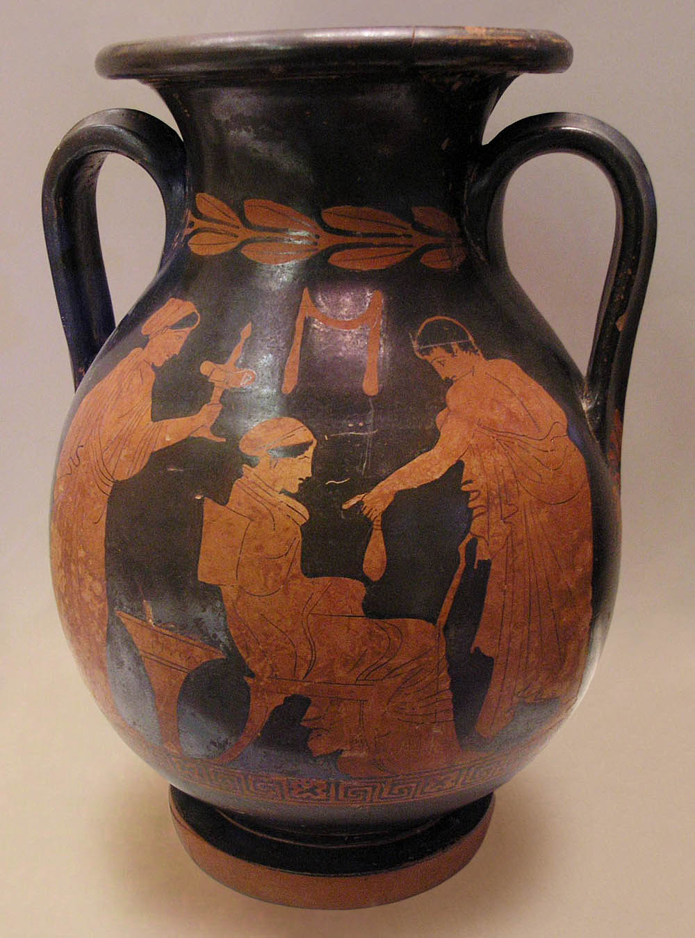 Youth giving a purse to a sitting hetaera (courtesan). Behind her stands a young woman carrying a plemochoe (toilet vase). Attic red-figure pelike (wine-holding vessel) by Polygnotos, ca. 430 BC. From Kameiros, Rhodes.